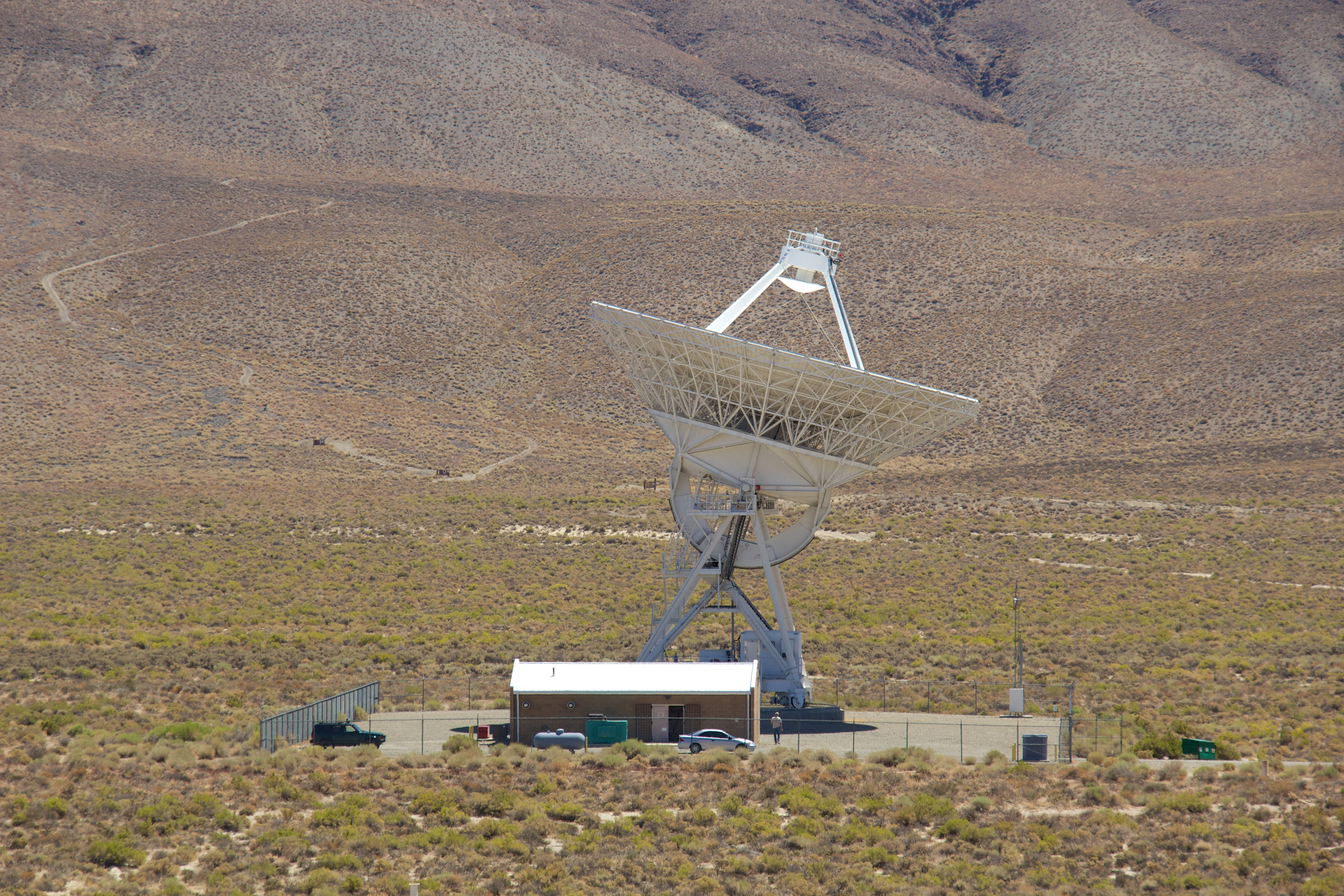 VLBI station at Owens Valley Radio Observatory, California.